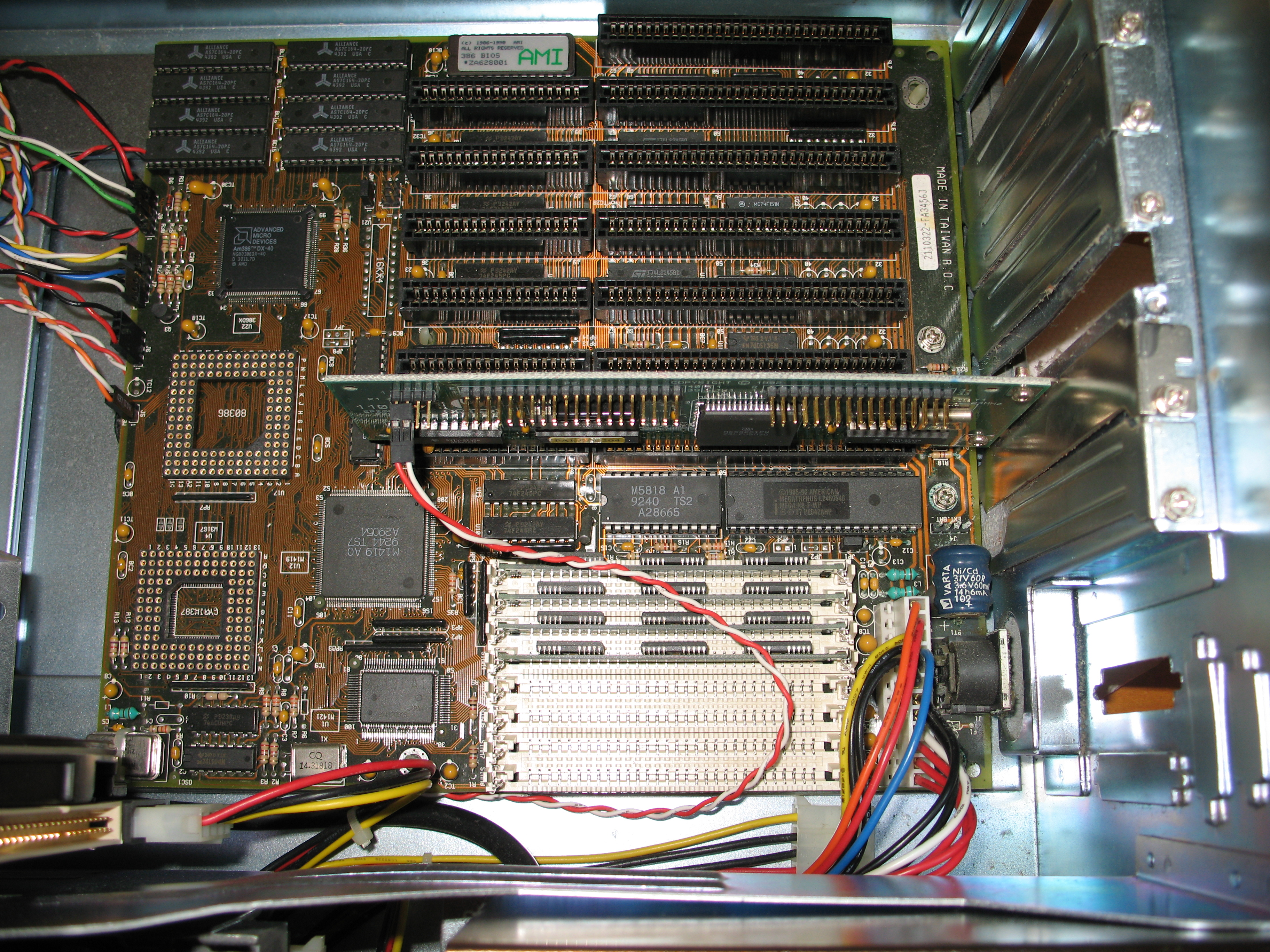 1992 80386 PC motherboard, with an AMD 386DX-40, no onboard IDE, floppy, serial, parallel, sound, video, or network